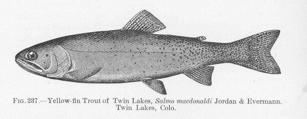 Yellow-fin Trout of Twin Lakes, Salmo macdonaldi Jordan & Evermann. Twin Lakes, Colo. Subject: Trout Tag: Fish